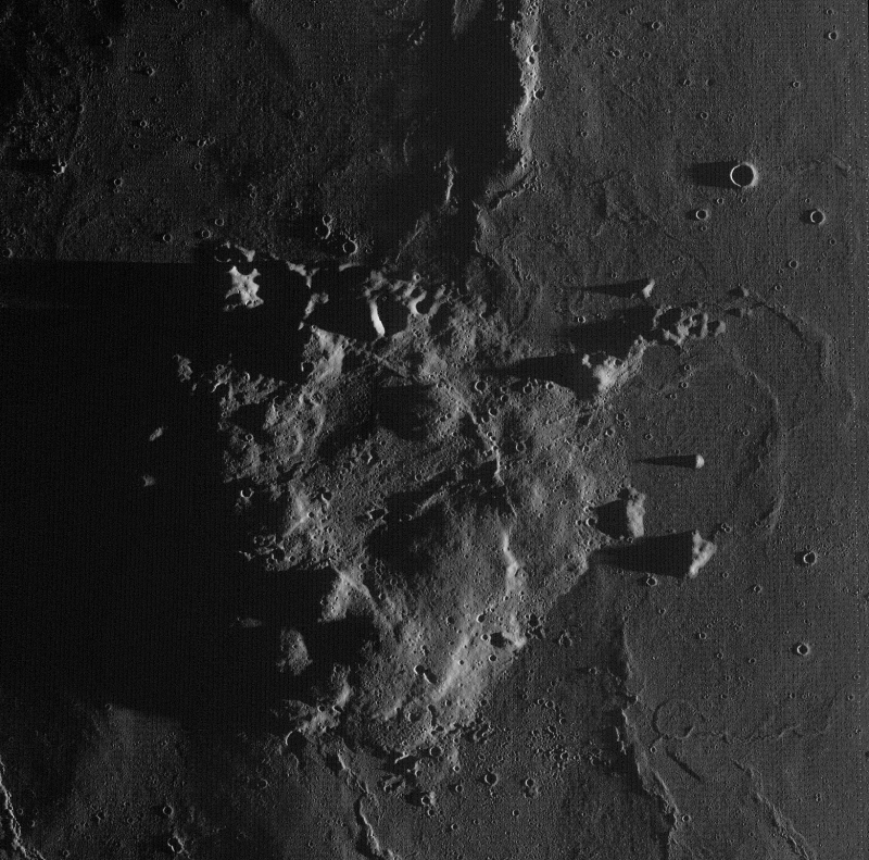 Mons Rümker on the Moon.